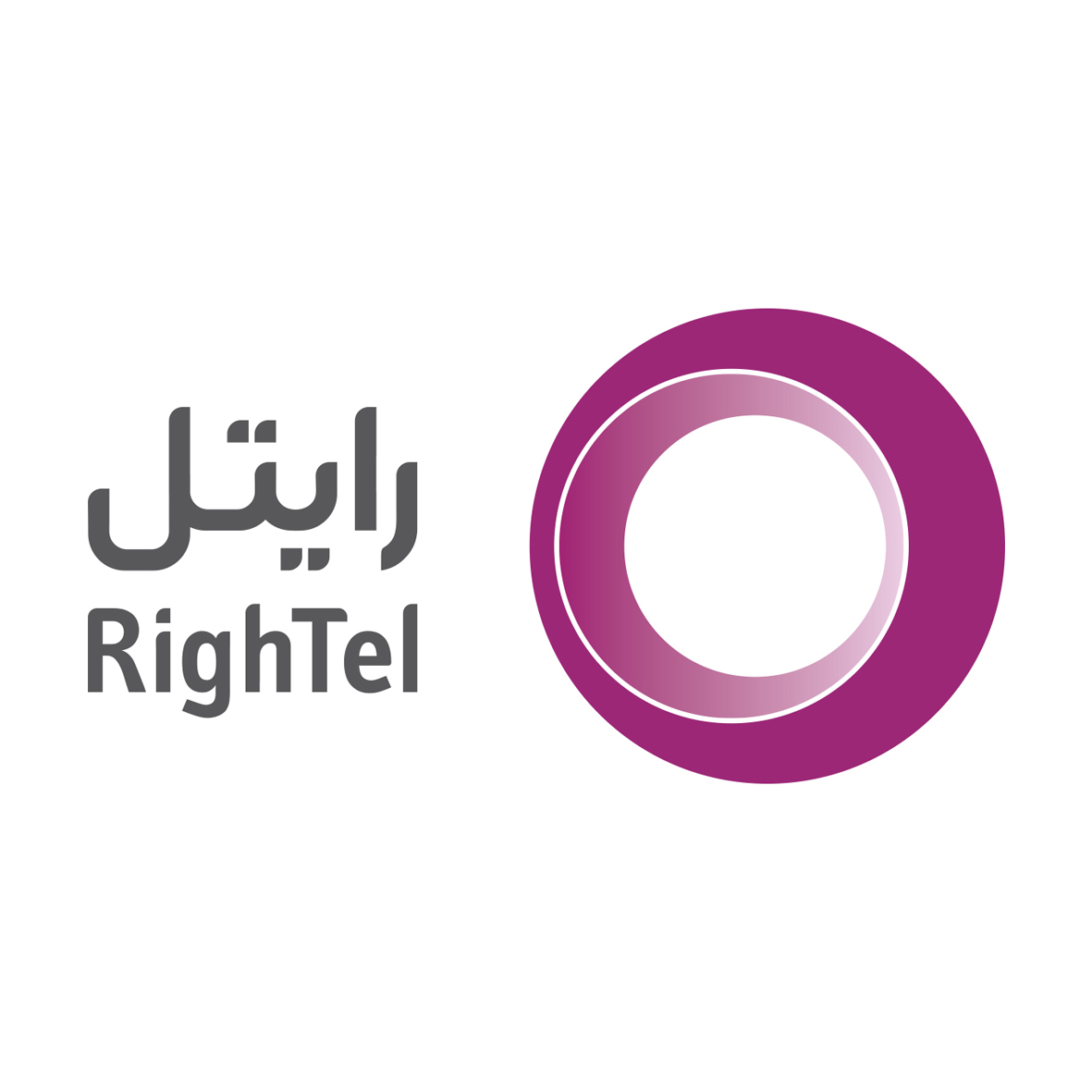 Rightel Company logo